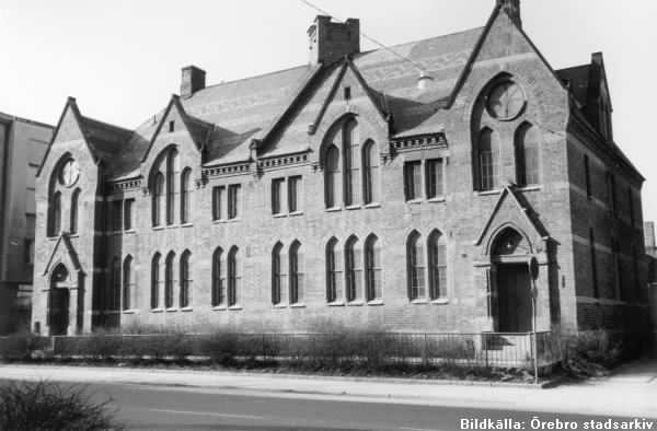 The school Nikolaiskolan, Örebro, Sweden